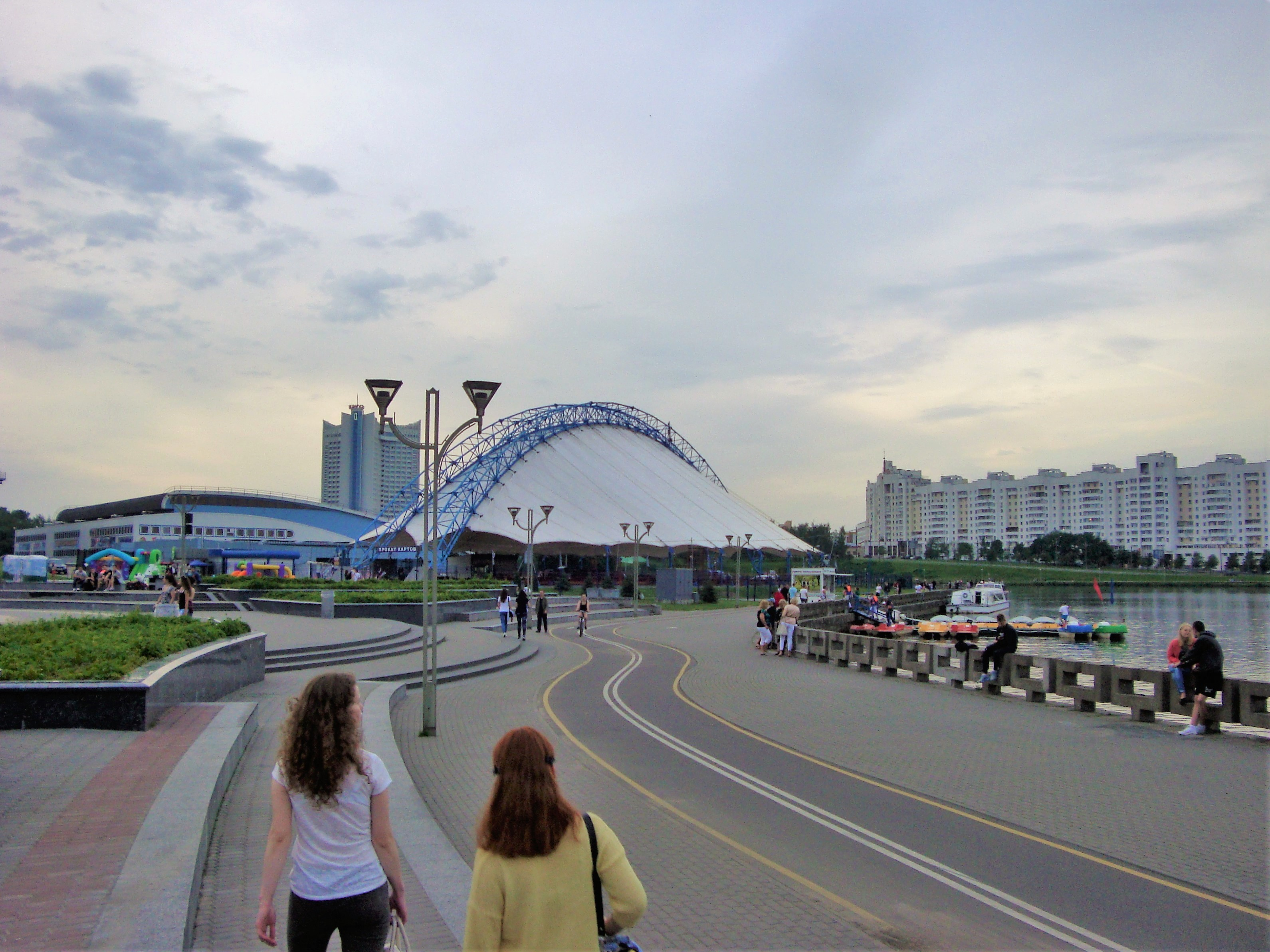 Bike path near Svisloch river and Minsk Sports Palace in Minsk city (Belarus), 6 June 2014 AD